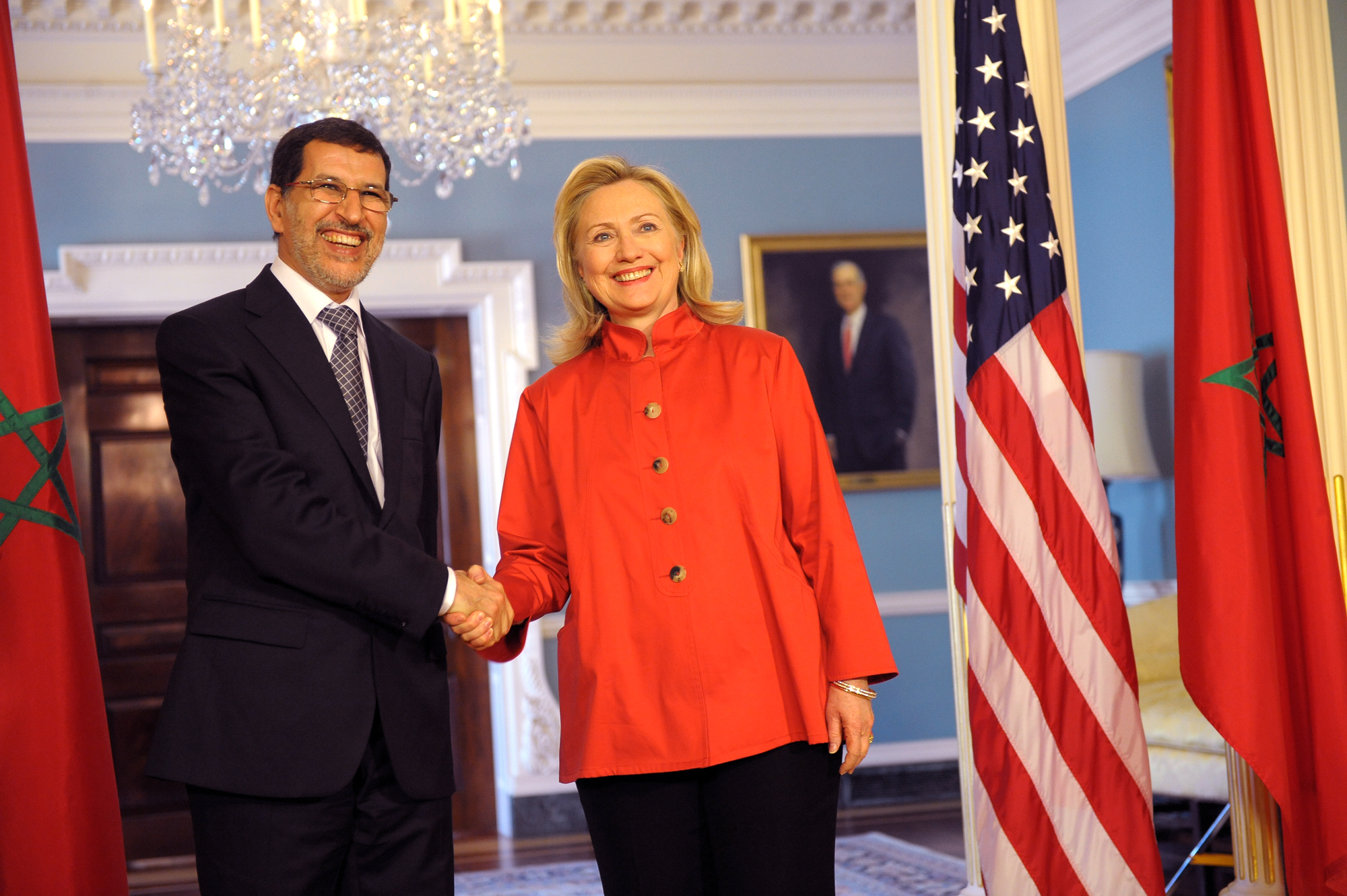 U.S. Secretary of State Hillary Rodham Clinton meets with Foreign Minister Saad-Eddine Al-Othmani of Morocco at the Department of State in Washington, D.C. on March 15, 2012.